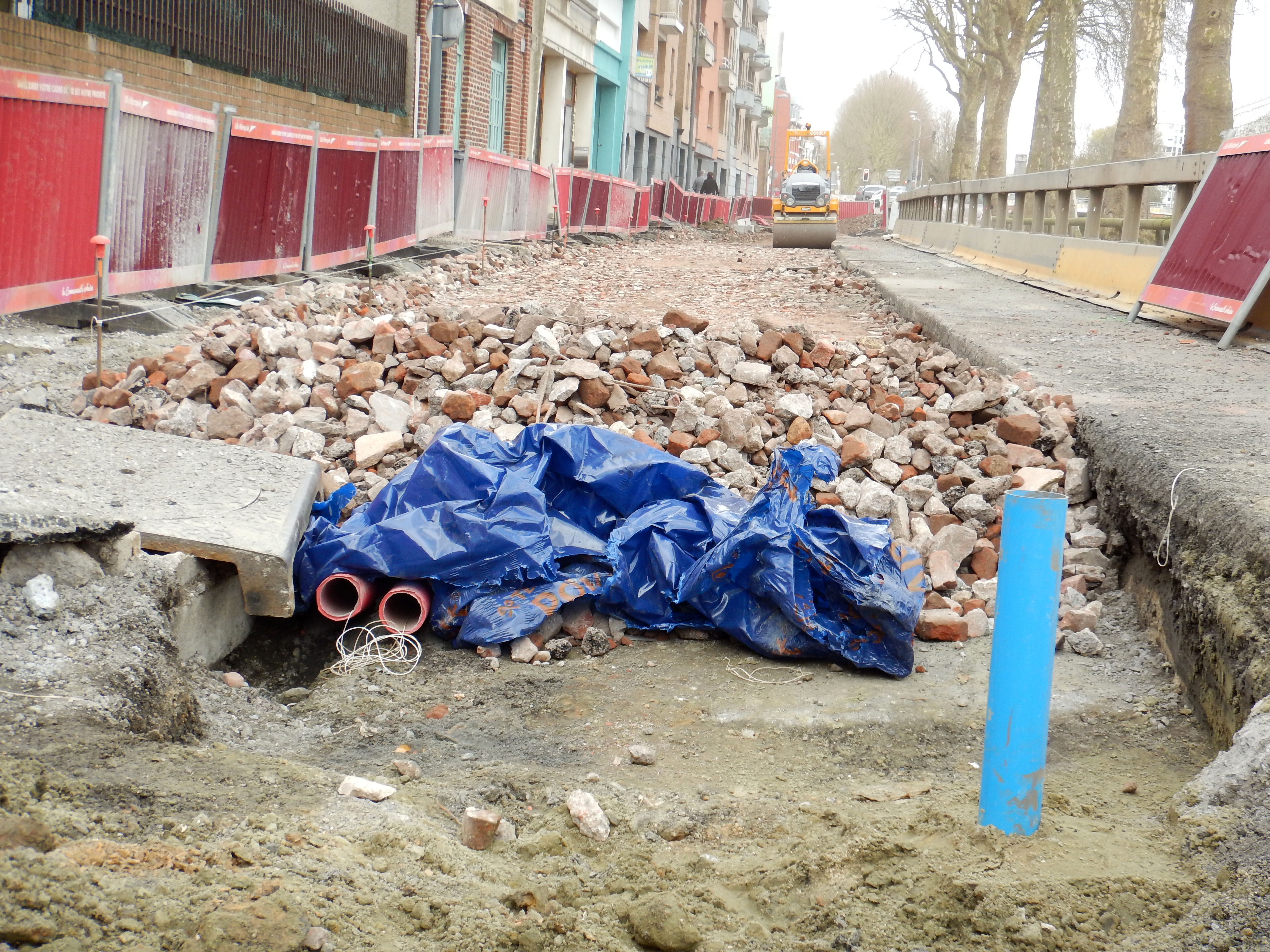 Road rehabilitation, along a tributary channeled Upper Deûle in Lille area (northern France). The bottom layer of the road is made with recovered and recycled bricks.